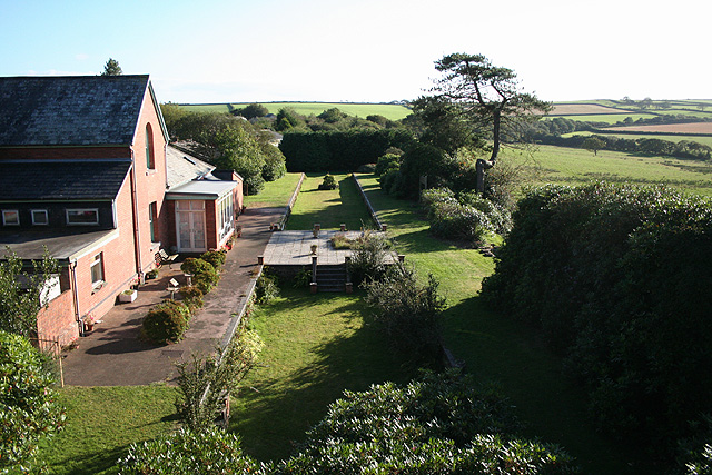 Tresmeer: old station, near to Treneglos, Cornwall, Great Britain. The platforms and station house survive at the hamlet of Splatt, as well as one running in board or station sign � all now part of a private residence. Seen from the old railway overbridge. A signalbox used to stand on the far platform. The North Cornwall reached here in 1892; Tresmeer was a temporary terminus until the line was extended to Camelford in October 1893, and was a centre for trade in cattle, rabbits and slate. Closure came in October 1966